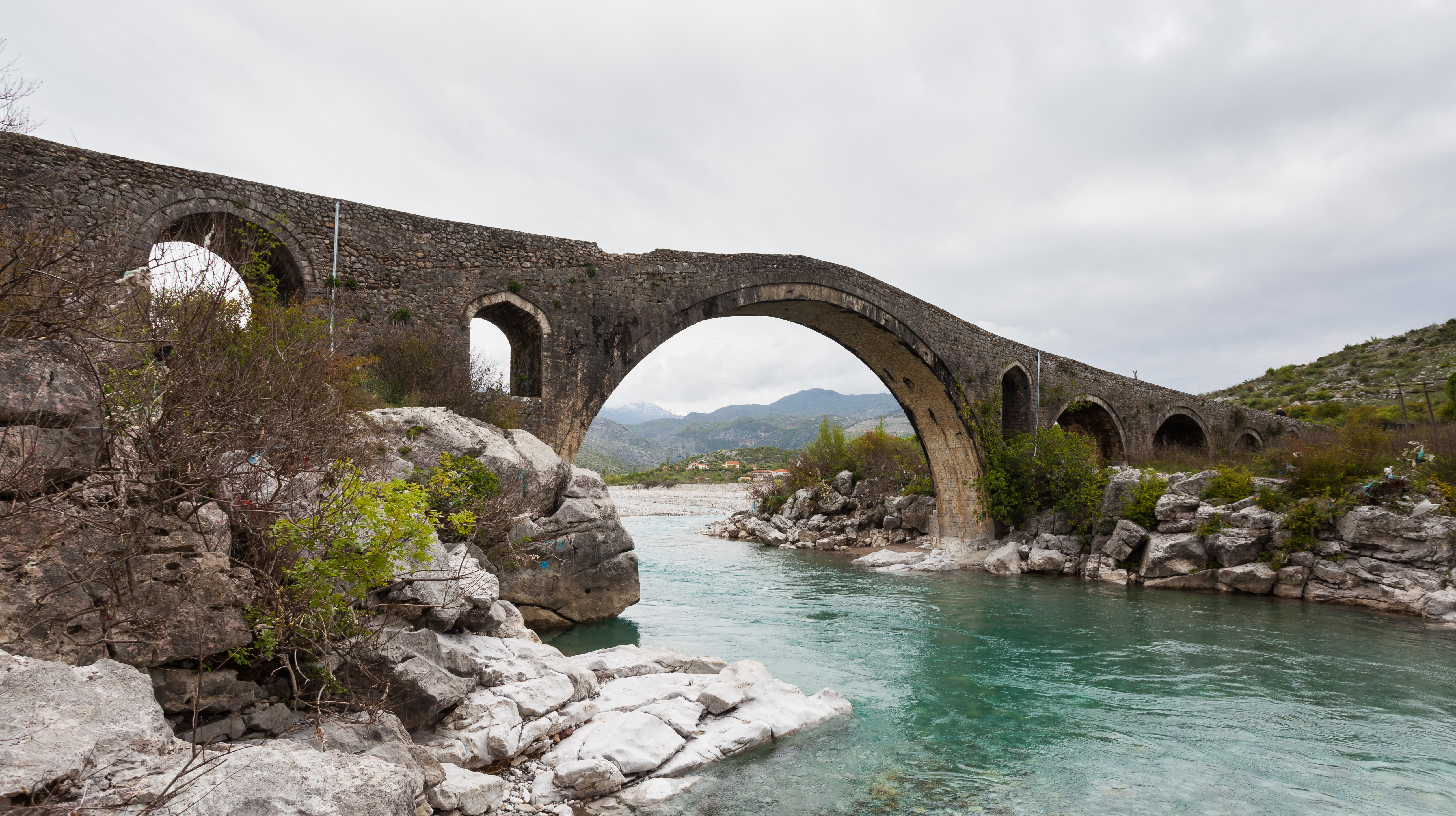 Mes Bridge, Mes, Albania